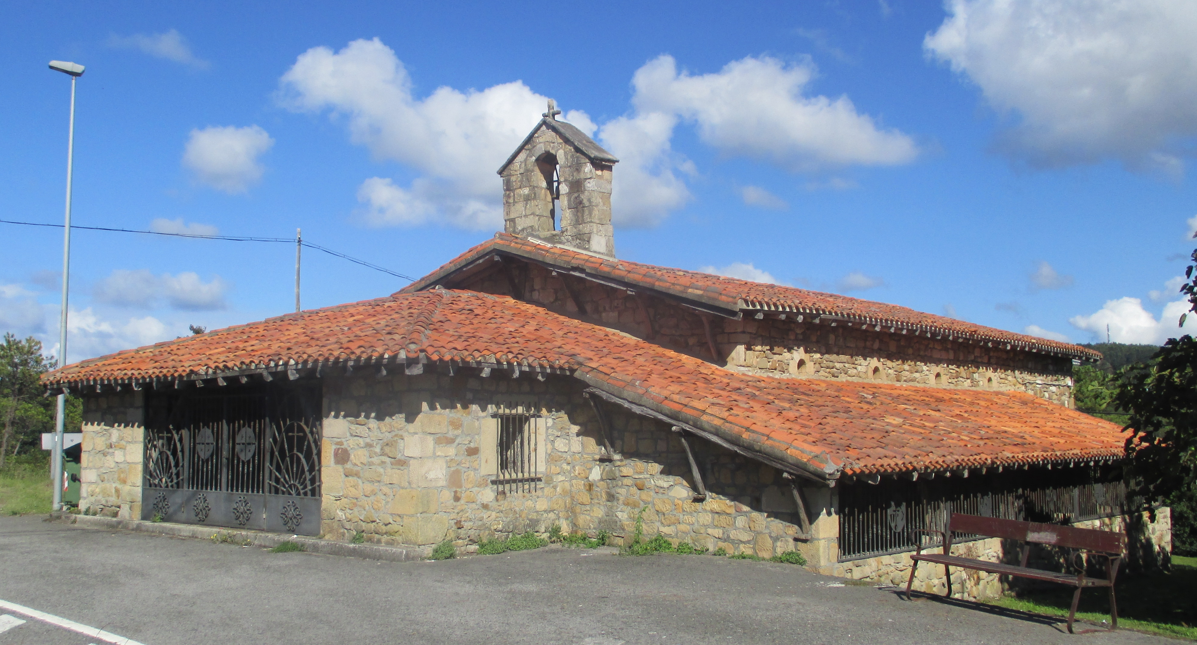 Church or hermitage of Saint Andrew, in Sopela, Biscay, Basque Country, Spain.